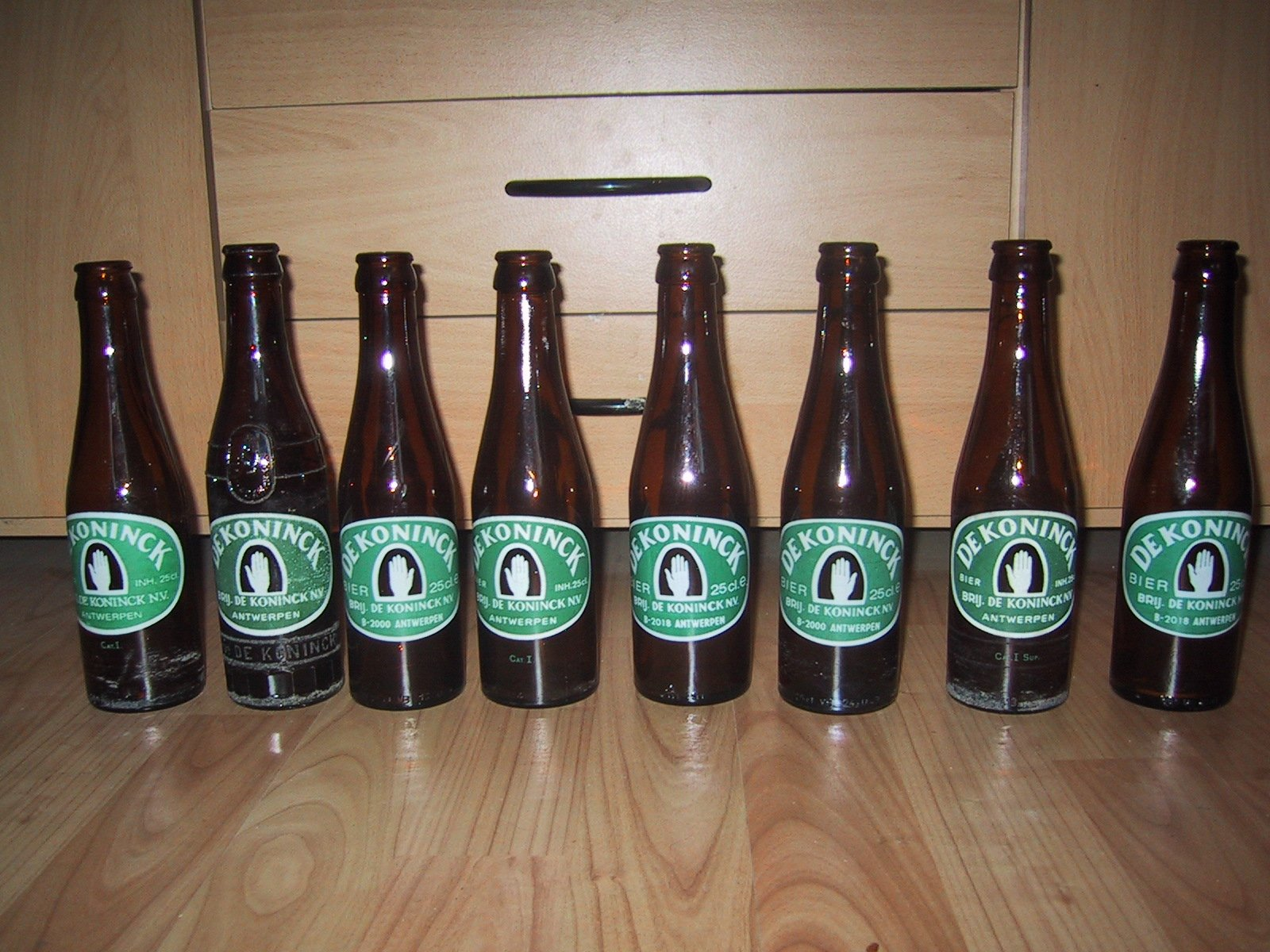 Bottles, de Koninck